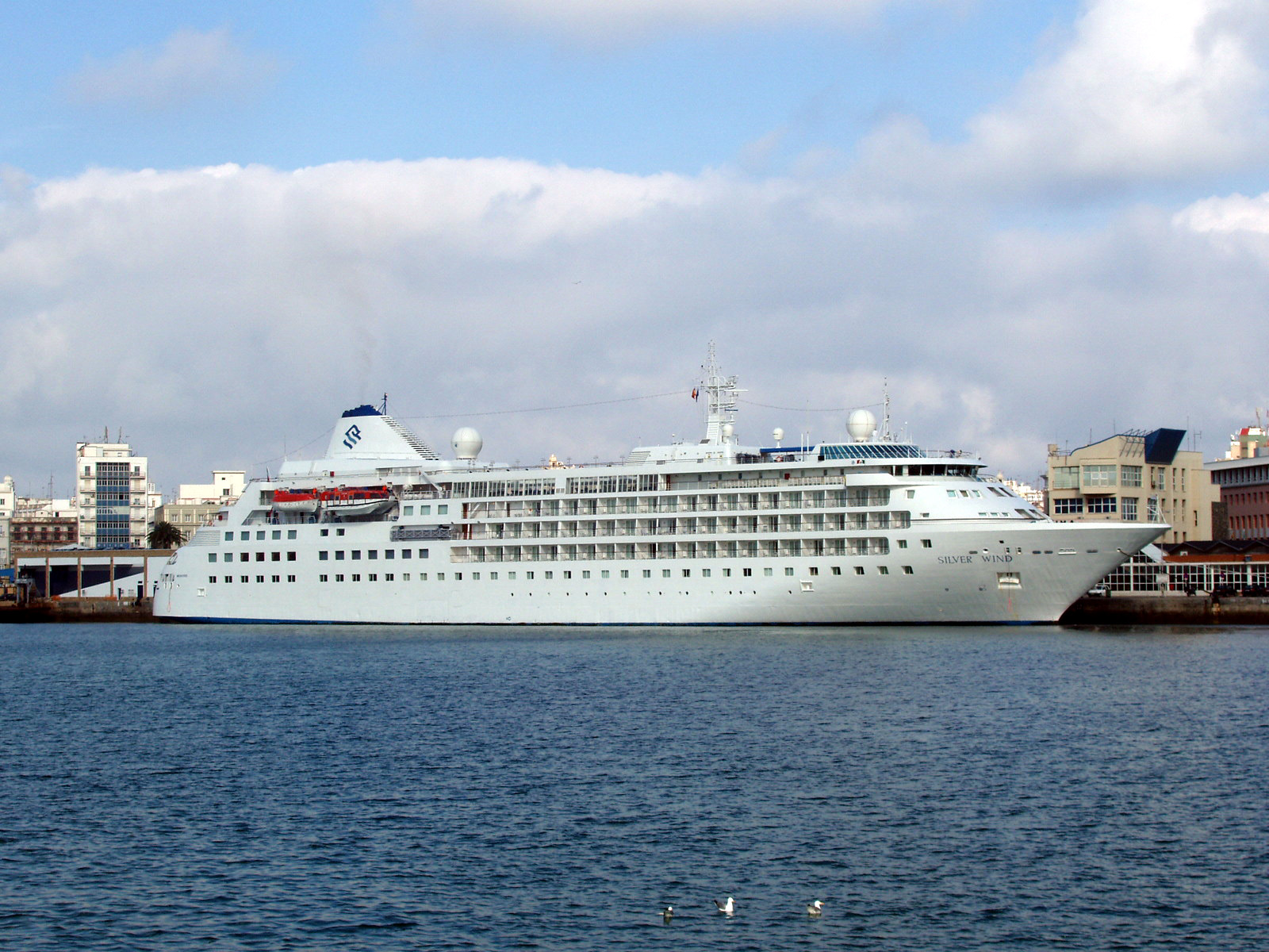 Silver Wind, Port of Bay of Cadiz, Spain. 156 m IMO Number: 8903935 MMSI Number: 308814000 Callsign: C6FG2 Length: 182 m Beam